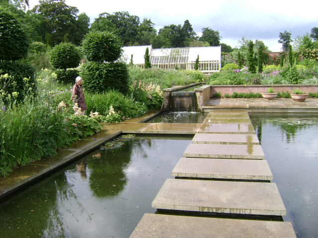 Walled garden at Broughton Grange, Broughton, Oxfordshire